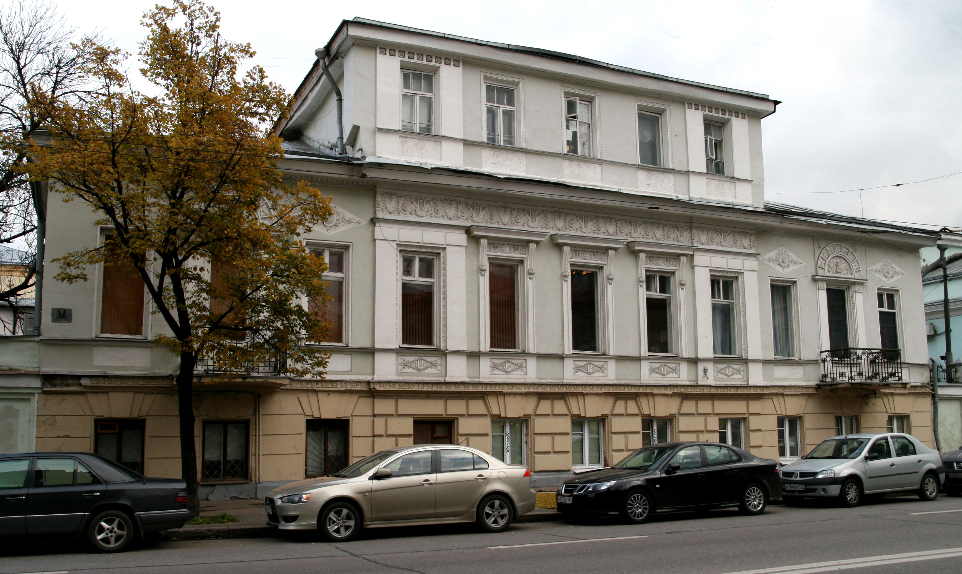 Moscow, Malaya Dmitrovka Street 12